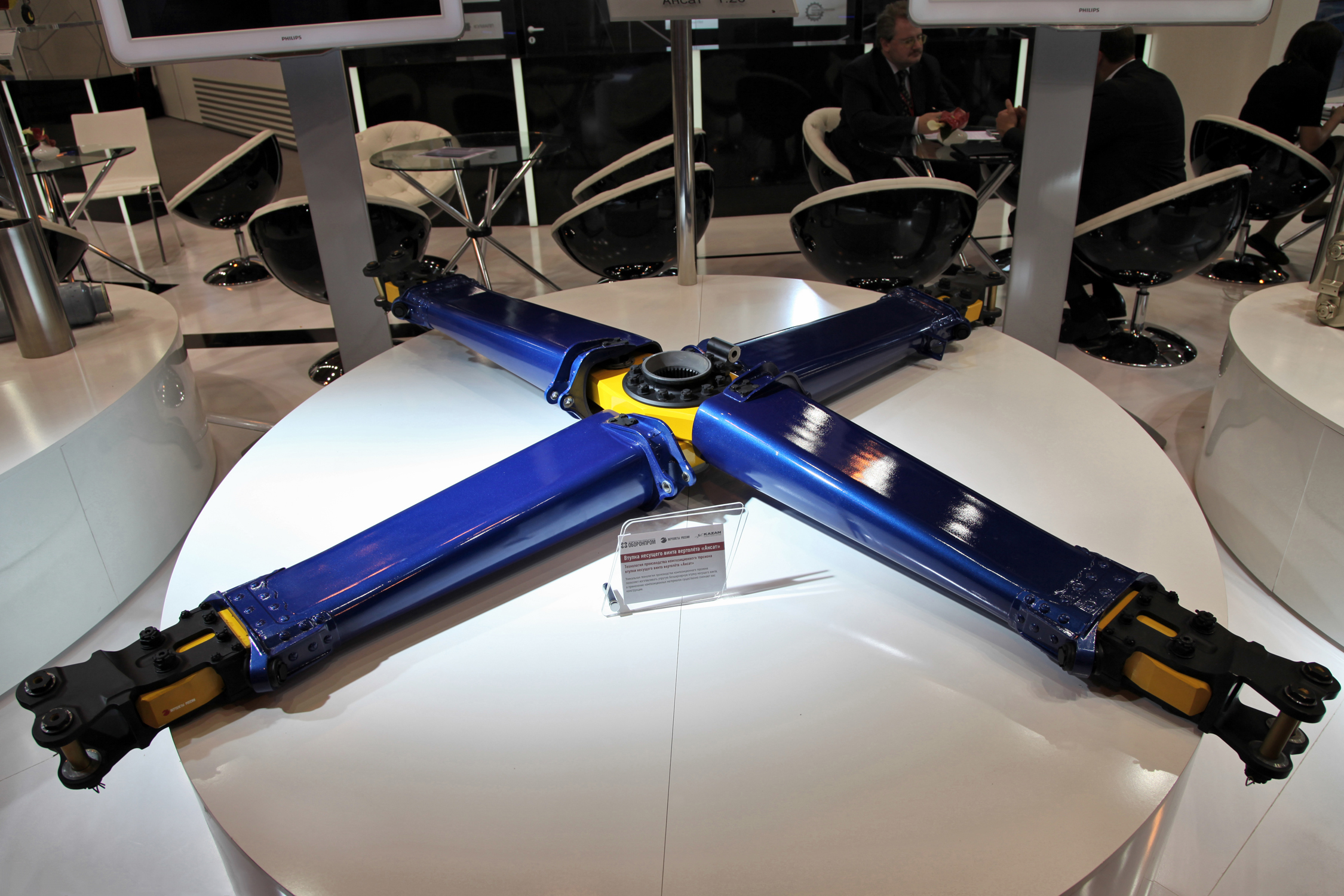 Ansat rotor head at Engineering technologies international forum - 2012